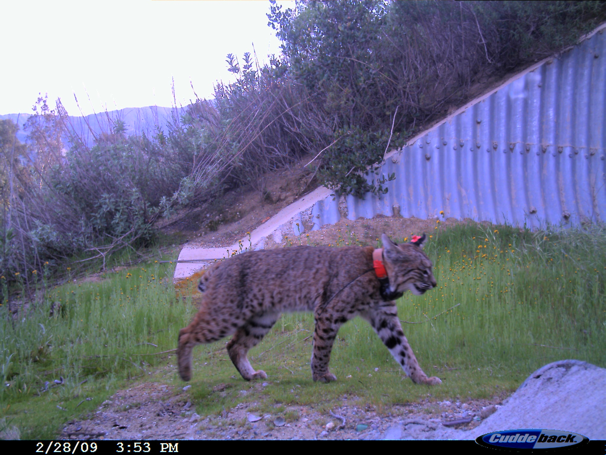 A bobcat (Lynx Rufus) using a wildlife corridor to cross between habitats in an urban area.